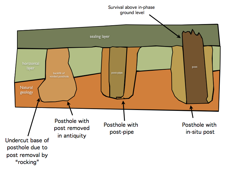 Three types of postholes